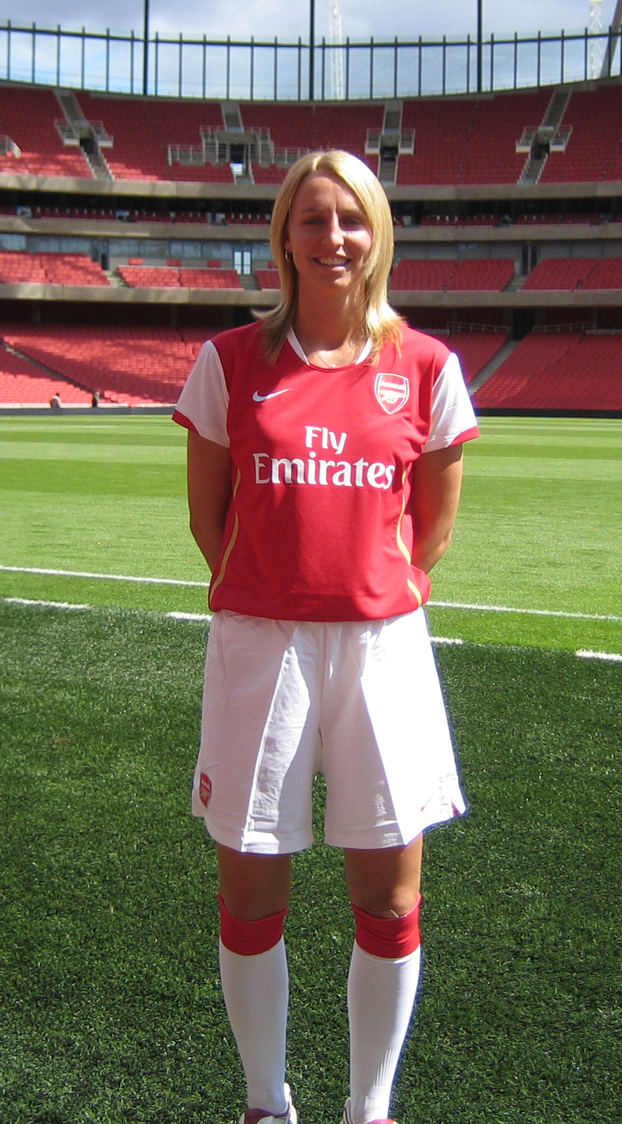 — Creative Commons Attribution-Sharealike. This is one of several CC licenses. This version permits free use, including commercial use; requires that you be attributed as the creator; and requires that any derivative creator or redistributor of your work use the same license. The desired attribution text should be included as a parameter in the template.